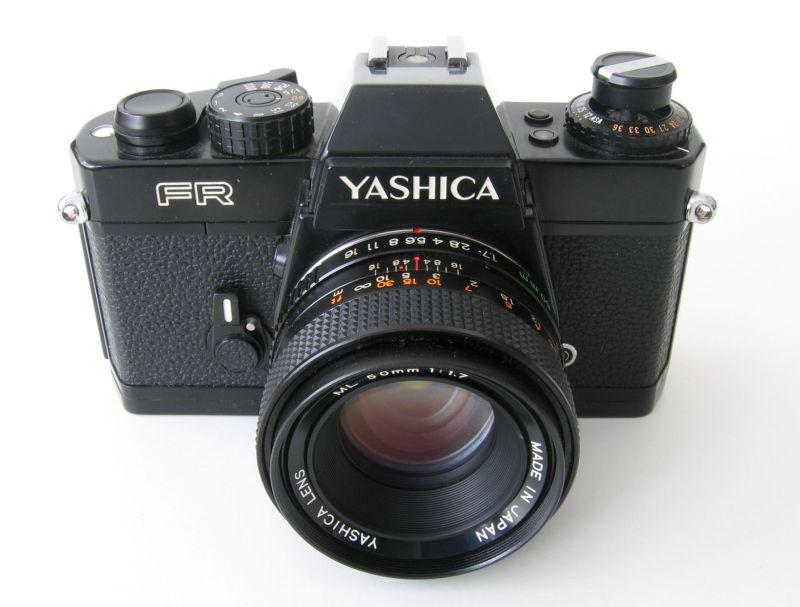 Yashica FR, about 1978